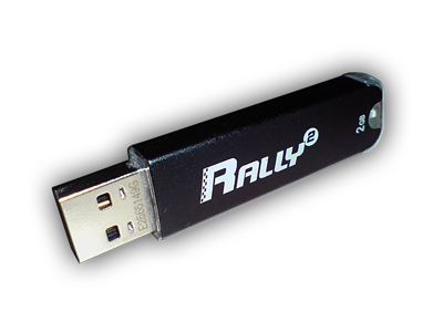 Image of an OCZ Rally2 USB Flash Drive. Taken by me.